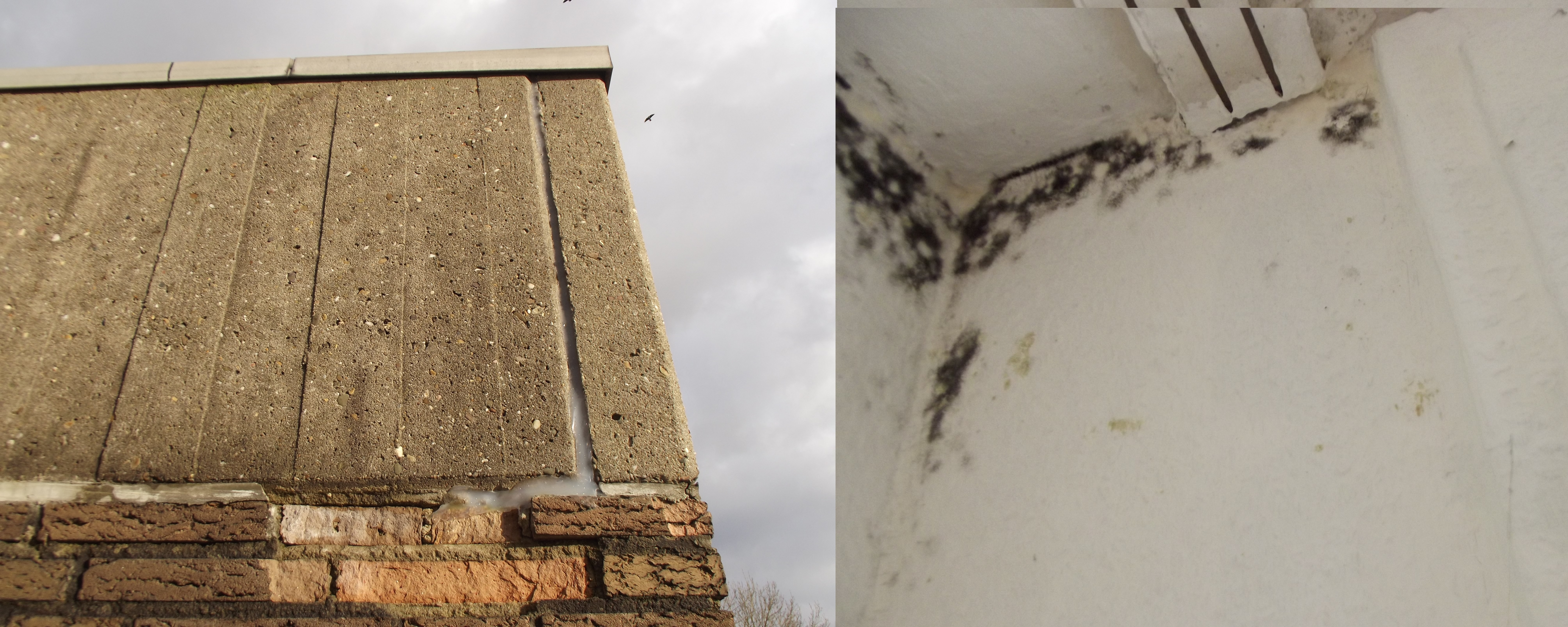 Made yesterday in a flat (or betterː a "box") in Steinfurt. The inhabitant wanted me to add that only "a jerk concen-trates on being miserly no matter what"